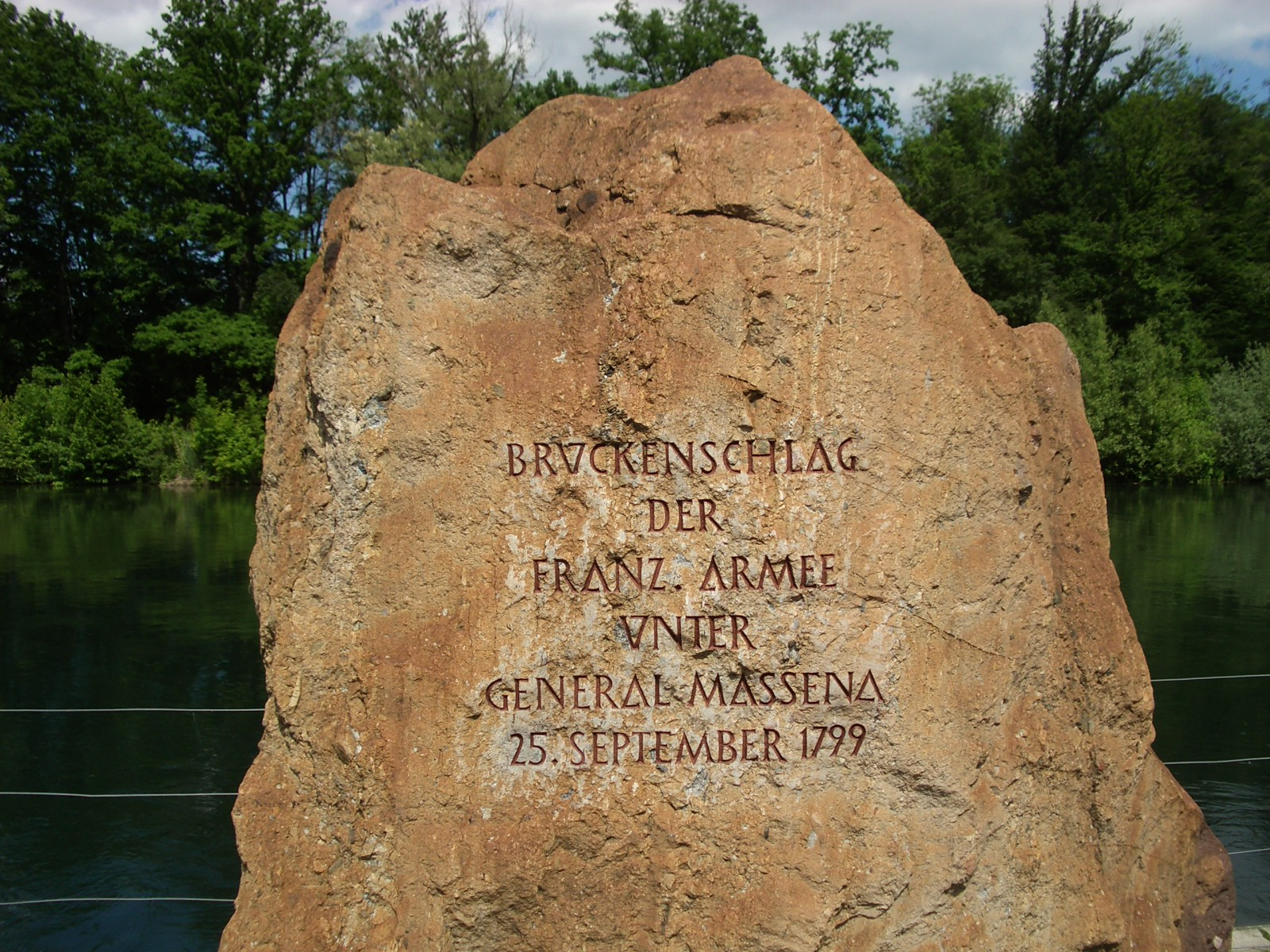 Dietikon ZH, Switzerland